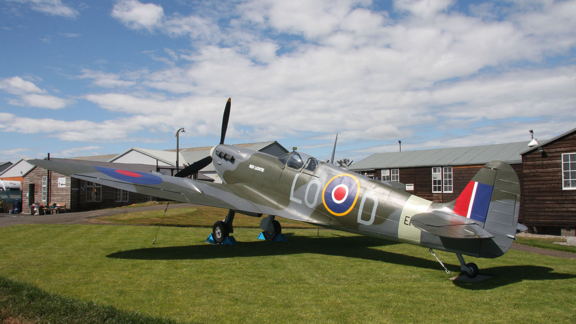 Full size replica Supermarine Spitfire MkVb LO-D (EP121) at Montrose Air Station Heritage Centre, Angus.